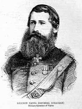 General Wilhelm Strecker or Reschid Pasha, Illustration for The Graphic, 9 June 1877.